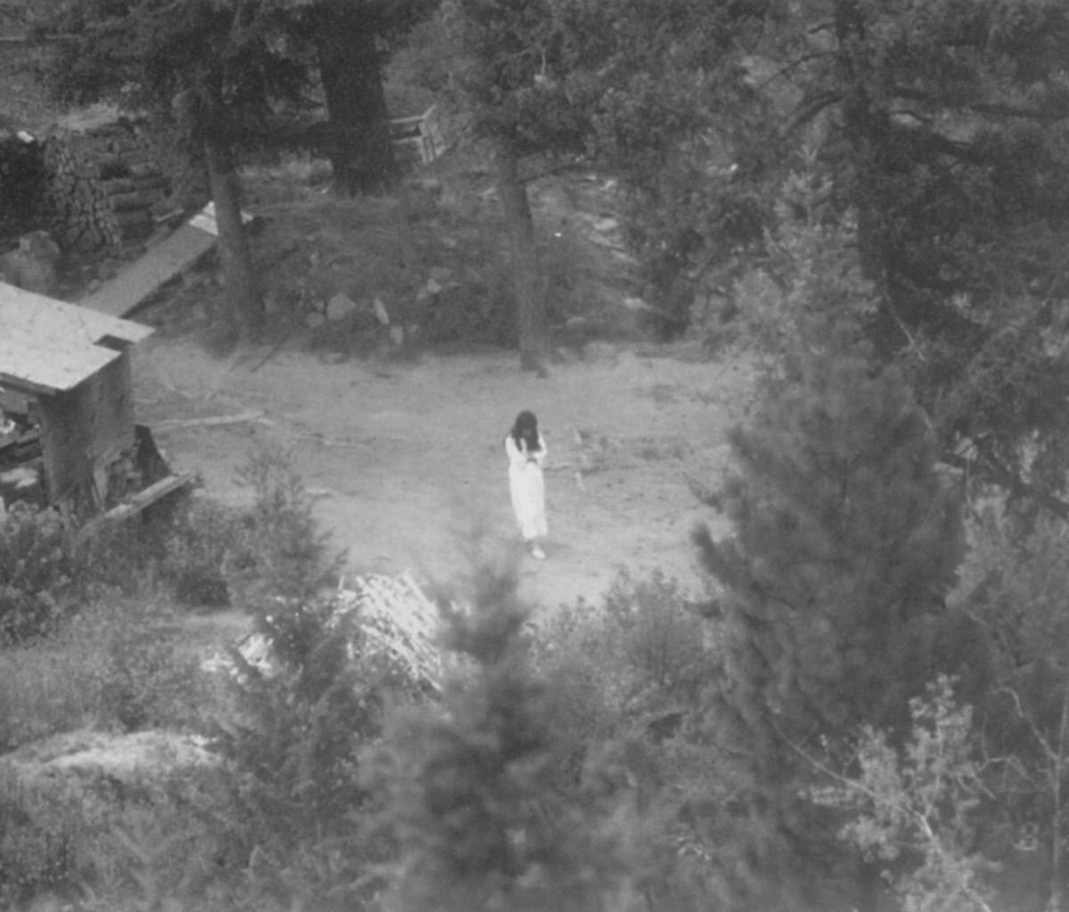 This is the last photograph of Vicki Weaver before she was killed by an FBI sniper 22 Aug 1992 in the Ruby Ridge standoff. It was taken by USMS surveillance the morning of 21 Aug 1992 and was evidence at the subsequent trial.